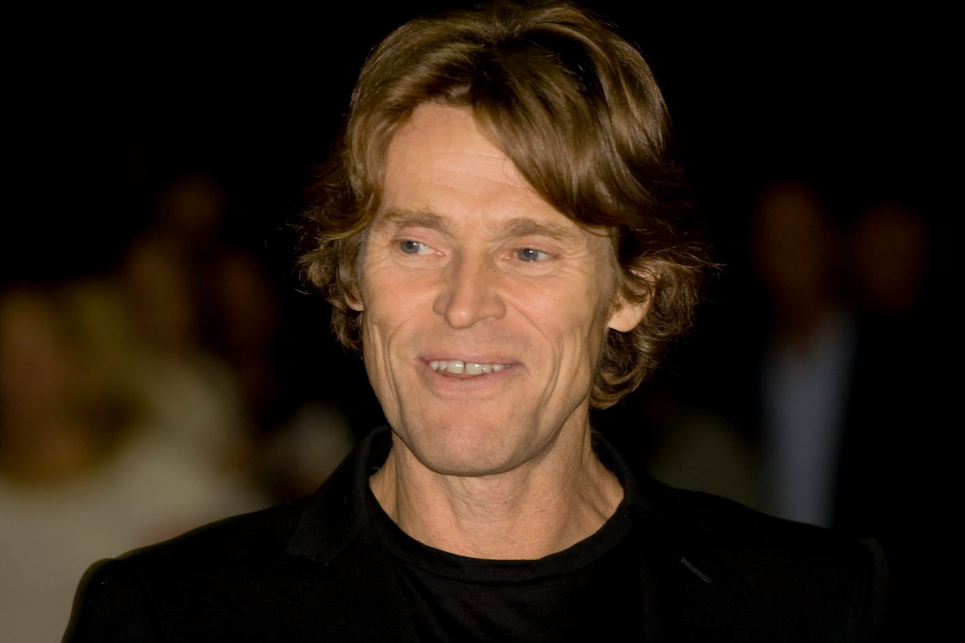 At the premiere of "Daybreakers", directed by Michael and Peter Spierig, during the Toronto International Film Festival, 2009.